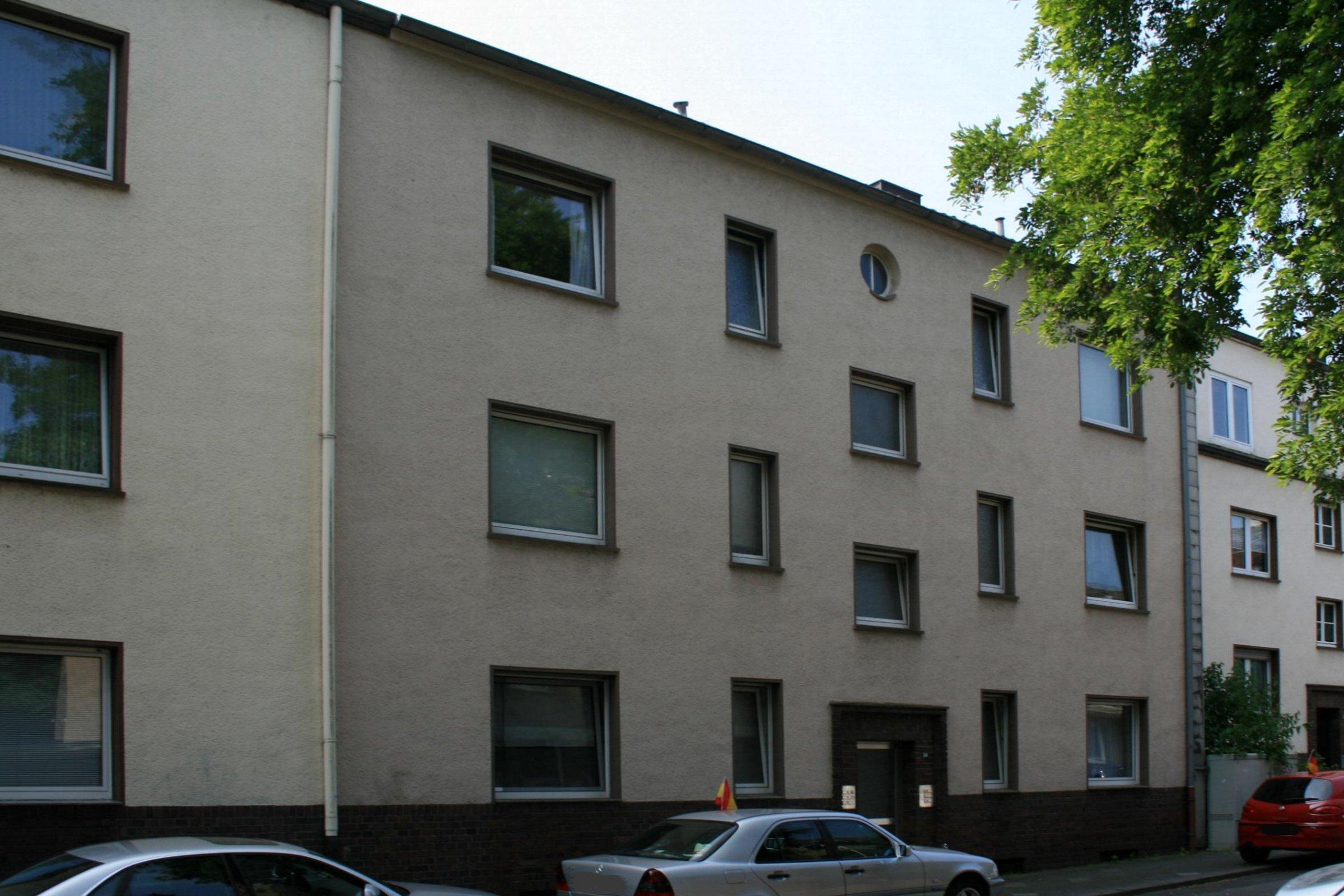 Cultural heritage monument No. B 123 in Mönchengladbach